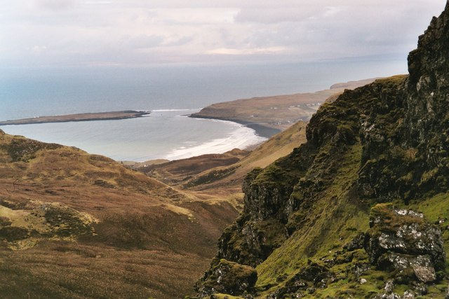 Staffin Bay. The broad sweep of the bay and Staffin island seen from The prison (Quiraing)